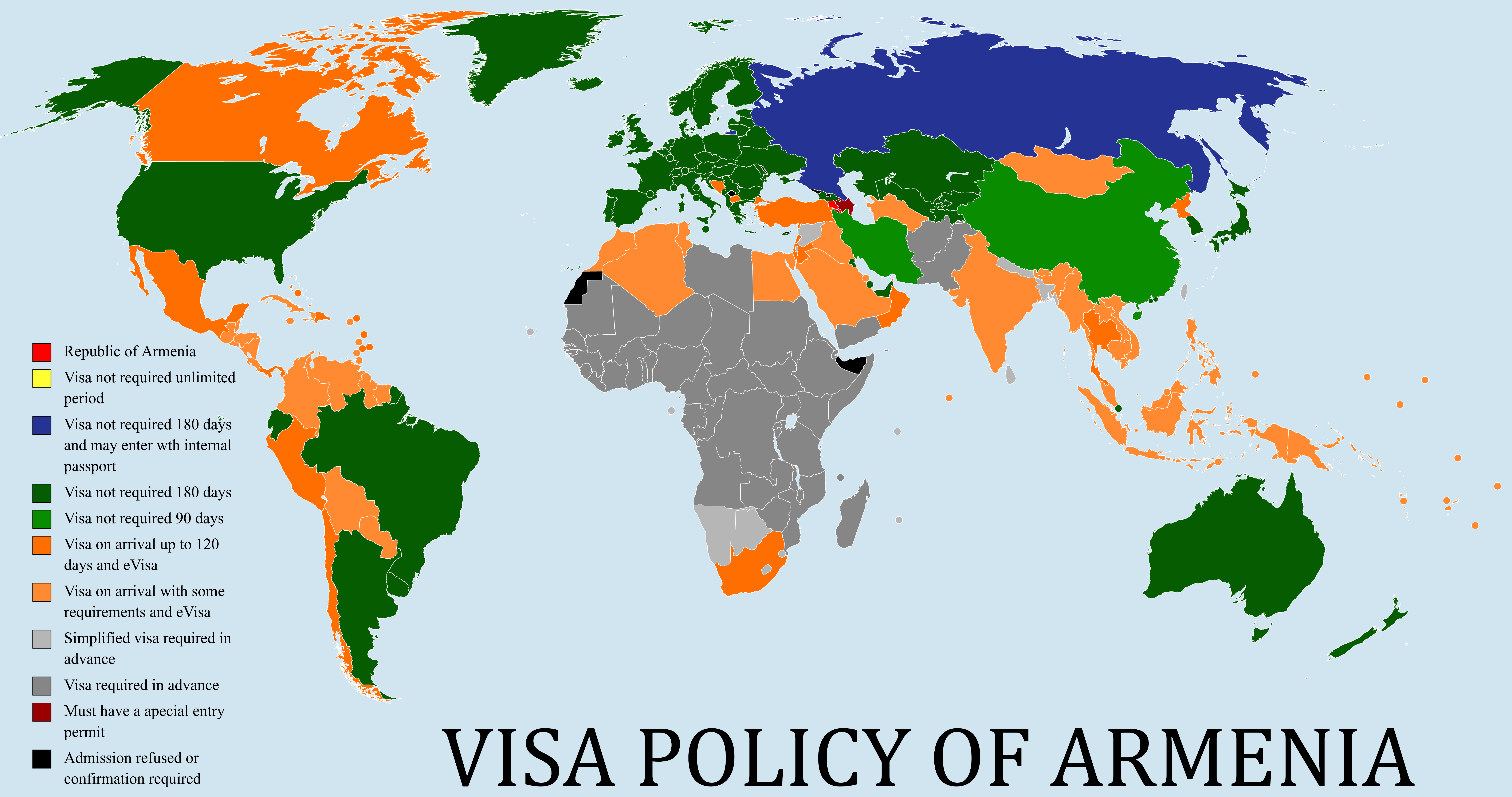 Visa policy of Armenia Armenia Visa-free (180 days) Visa-free (90 days) Visa on arrival or eVisa (120 days) Visa required